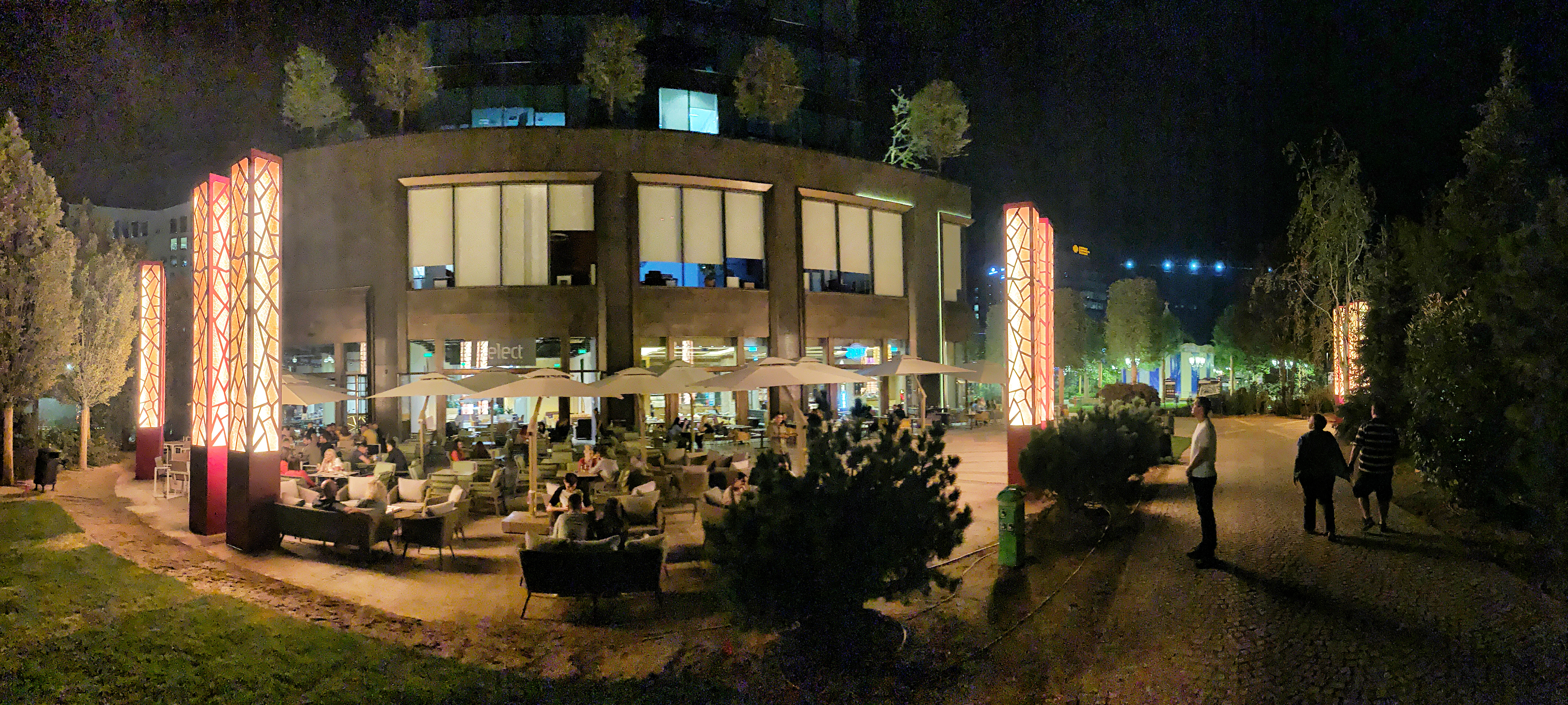 Iulius Town Timișoara at night, September 2019